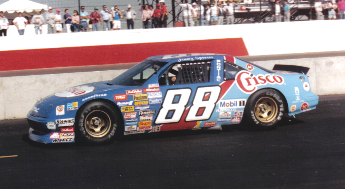 The Buddy Baker/Danny Schiff Crisco #88 Pontiac was driven by Jimmy Spencer to a 10th place finish in the 1989 Checker Autoworks 500.